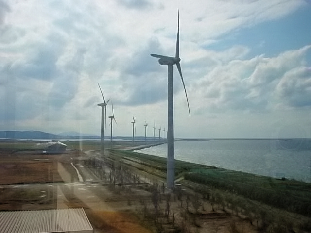 Description: Wakamatsu wind farm on the coast harnesses wind energy and converts it into electricity. 'Source: English Wikipedia, original upload 28 December 2004 by Historian Image:Wakamatsu wind farm.jpg , 4 April, 2004.